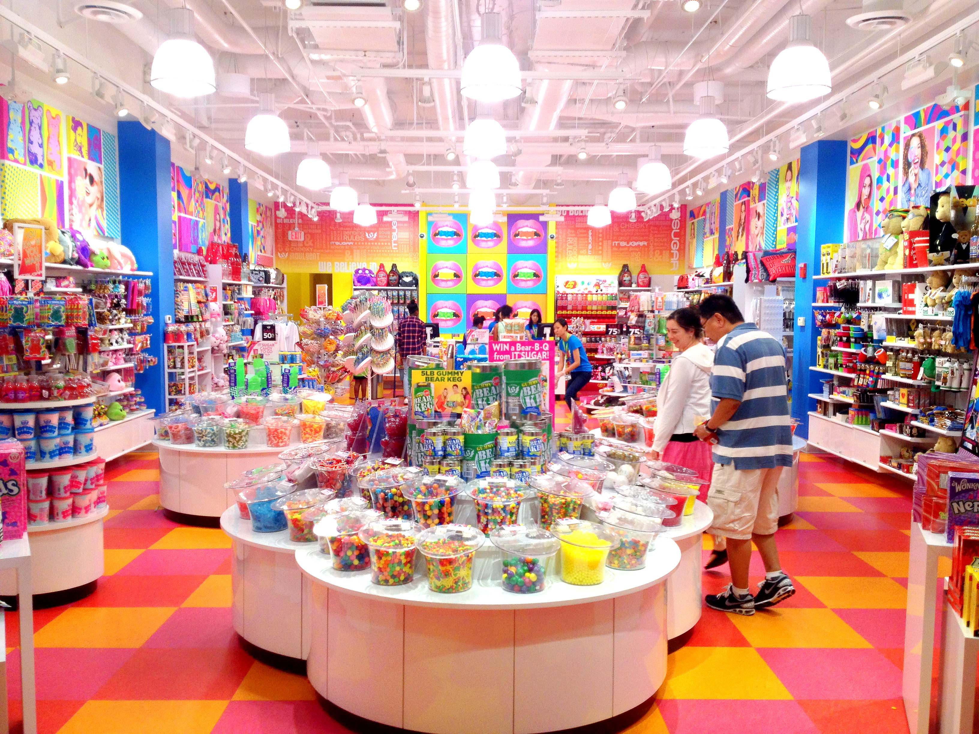 A really colorful and inviting candy store in Maryland